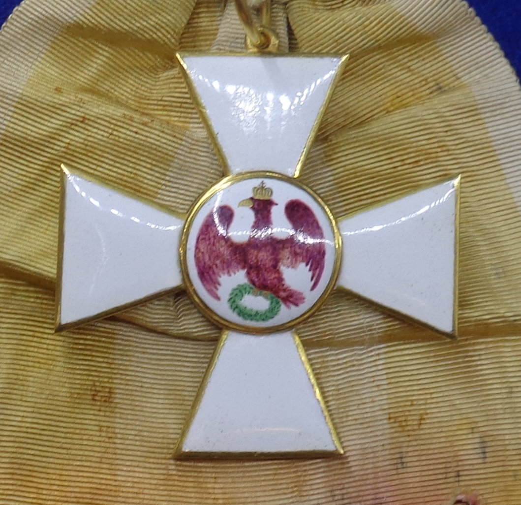 Order of the Red Eagle, badge 1st class, 1810-1829. Kingdom of Prussia. The exhibition of the Tallinn Museum of Orders of Knighthood, Estonia.